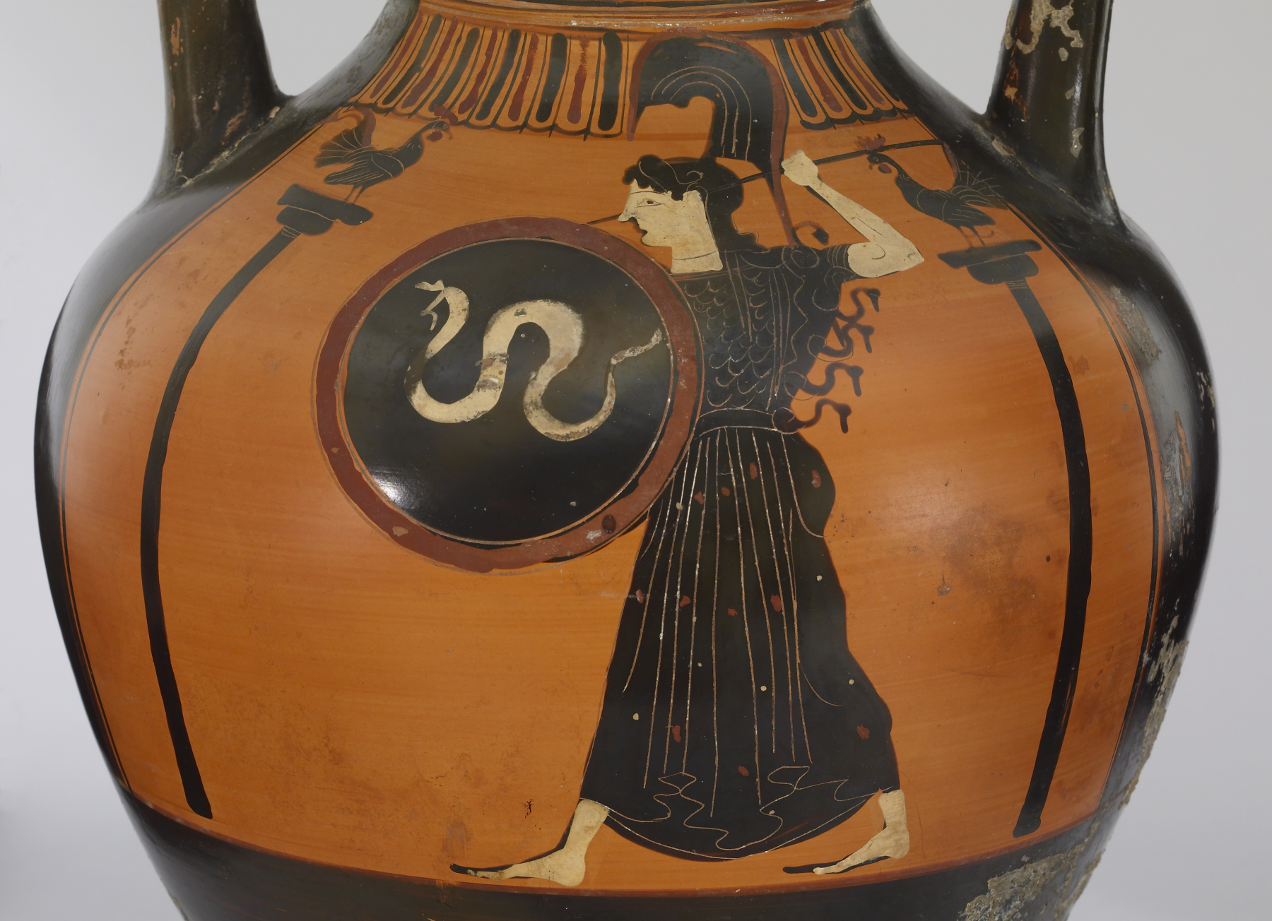 On side A, Athena is striding to the left with a spear in her raised left hand and a shield in her right with a large snake, a popular shield device on Panathenaic vases of the late Archaic period. She is wearing a patterned garment, a high-crested helmet, and the "aegis," from which several snake heads clearly emerge. Two thin columns crowned by roosters frame the scene. The reverse shows two young jockeys in high gallop in the heat of the race. Both boys are nude and ride without saddles or stirrups, guiding the horse with their reins. The rider in the back is using a whip in his raised right hand to gain some ground on his opponent. The focus is clearly on the rider on the left, whose horse occupies the composition's foreground, its head partially obscuring the other rider. The prominence of the horse and rider, captured at a decisive moment in the race, may signal the contest's victor. The amphora lacks the prize inscription on the front that is characteristic of small-scale copies, created for trade and as commemorative souvenirs, of the Panathenaic prize amphoras (see Bentz 1998, 19-22). Dorothy Hill noted that the piece is stylistically and thematically close to the work of the Eucharides Painter, who painted at least three full-scale Panathenaic prize amphoras depicting two riders competing (Maul-Mandelartz 1990, 105).